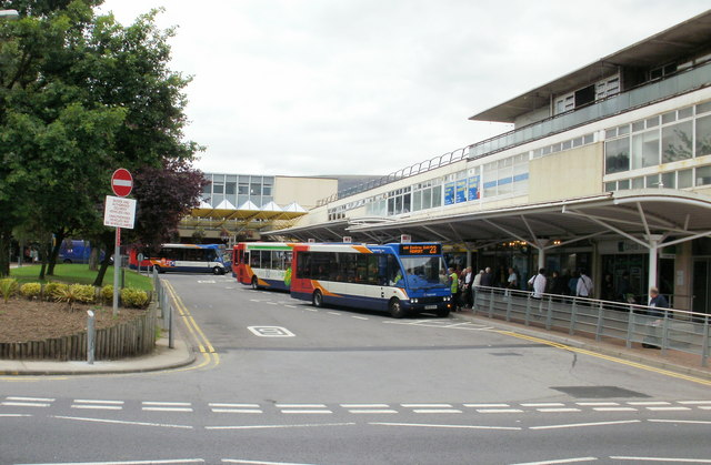 Cwmbran Bus Station, Gwent Square Gwent Square is more nearly horseshoe-shaped than square. This view of the bus station is of the northern side of Gwent Square. The major provider of bus services in Cwmbran is Stagecoach, several of whose buses are seen here.